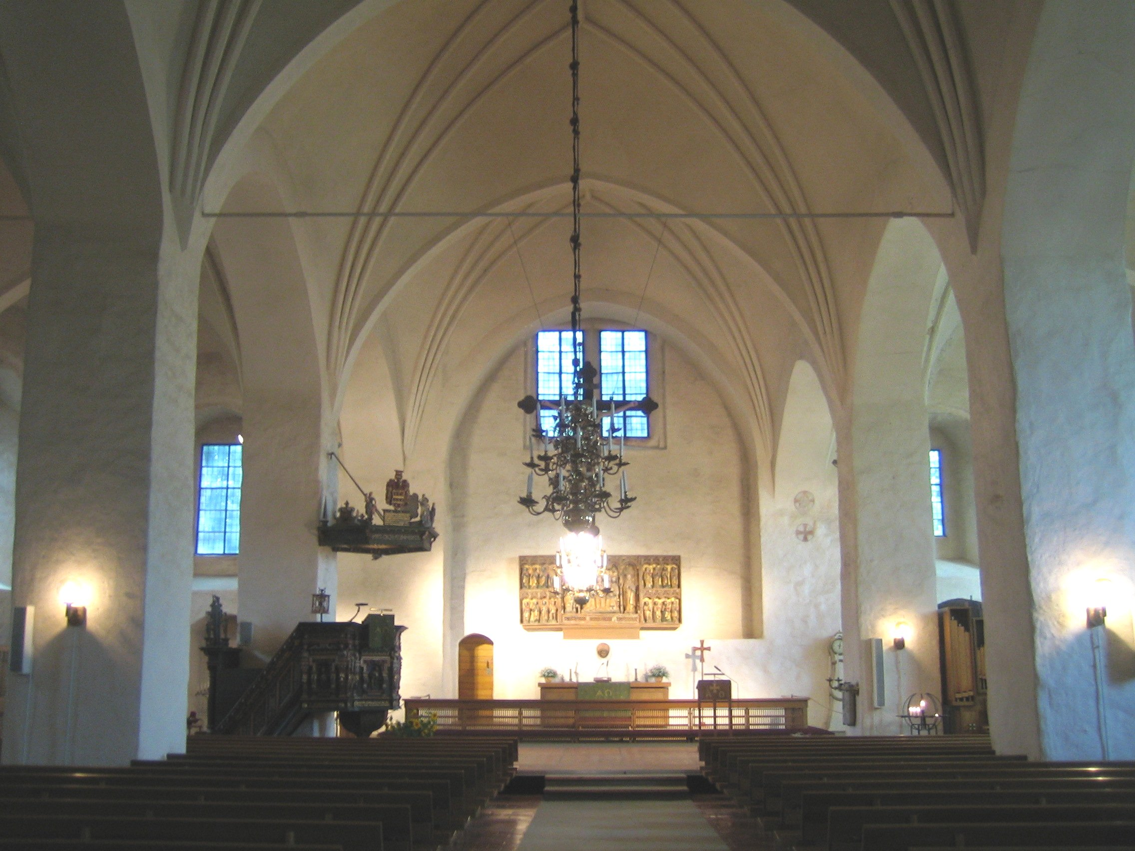 Gothic era Church of Naantali — Finland.